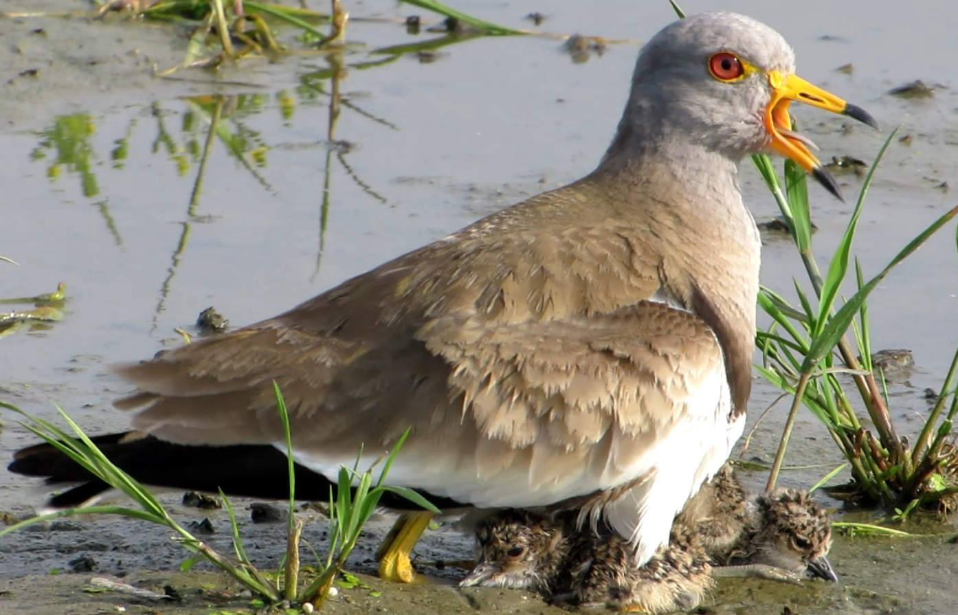 Grey-headed Lapwing crying with 2 juveniles, (Vanellus cinereus) , in Aichi prefecture, Japan.